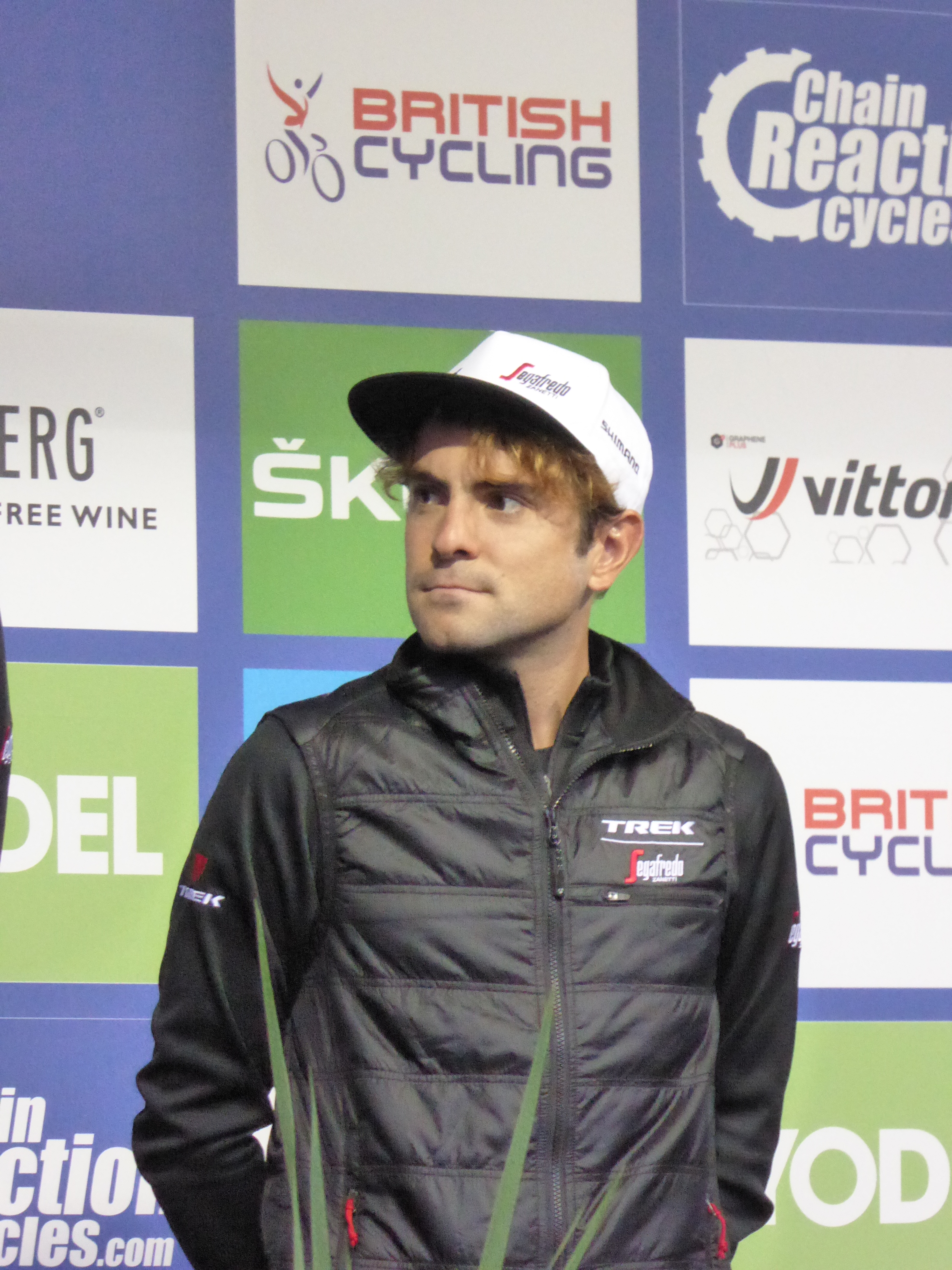 Jacopo Mosca (Trek-Segafredo stagiaire), pictured at the 2016 Tour of Britain team presentation in Glasgow on 3 September 2016.